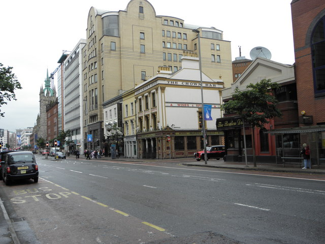 Great Victoria Street, Belfast The famous Crown Bar centre.